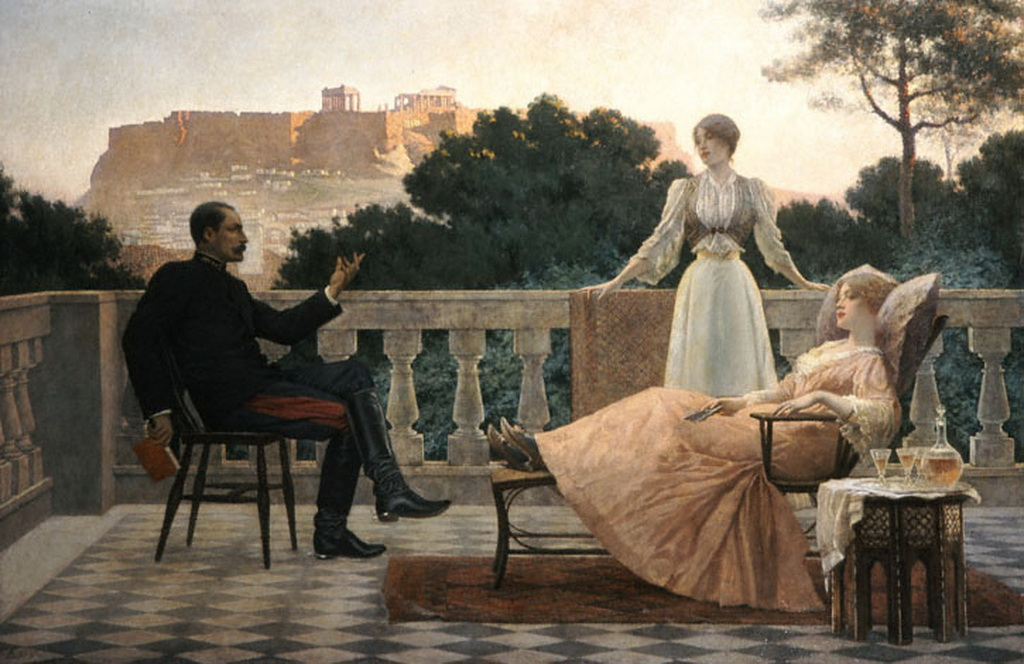 On terrace (1897)